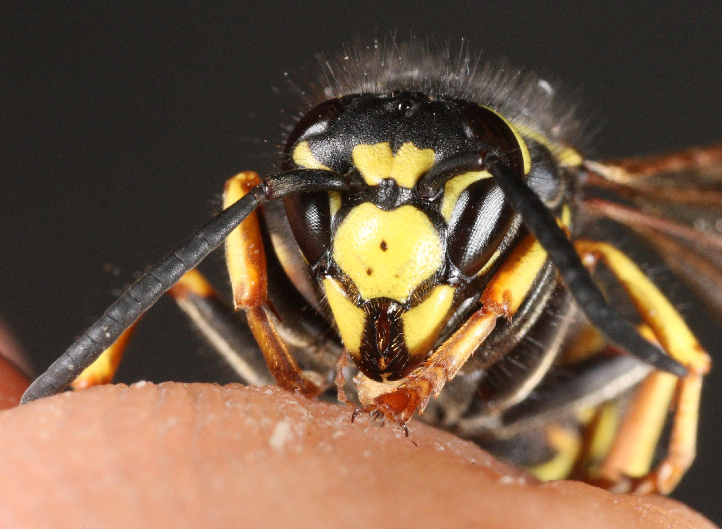 Queen of red cuckoo wasp Vespula austriaca. Sharp edges and three small spots on the upper lip.